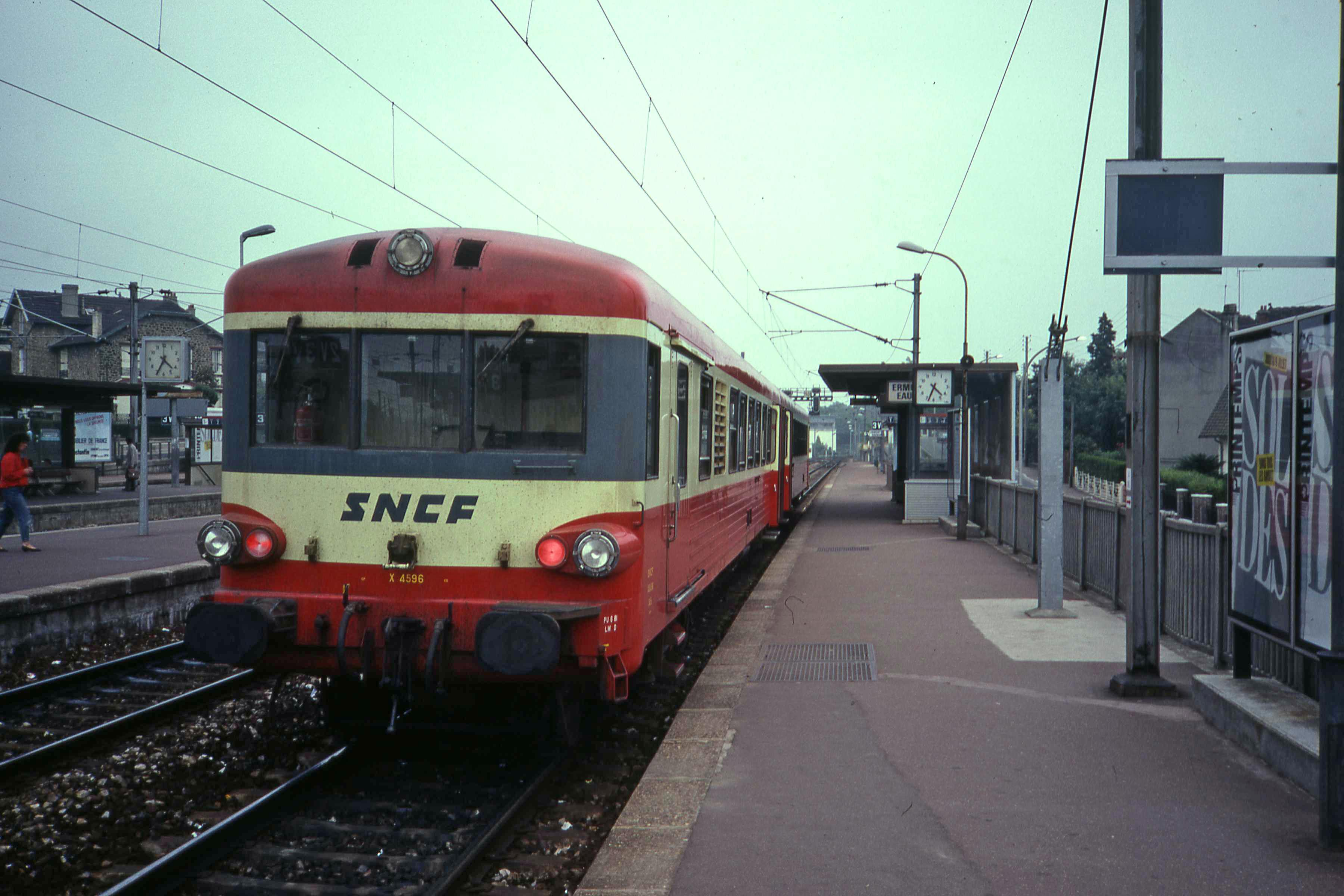 The diesel multiple-unit for the Gennevillers line, in 1983. This was before the line was electrified for the RER C service.